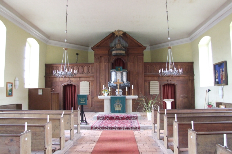 Village Church in Reckahn, sanctuary